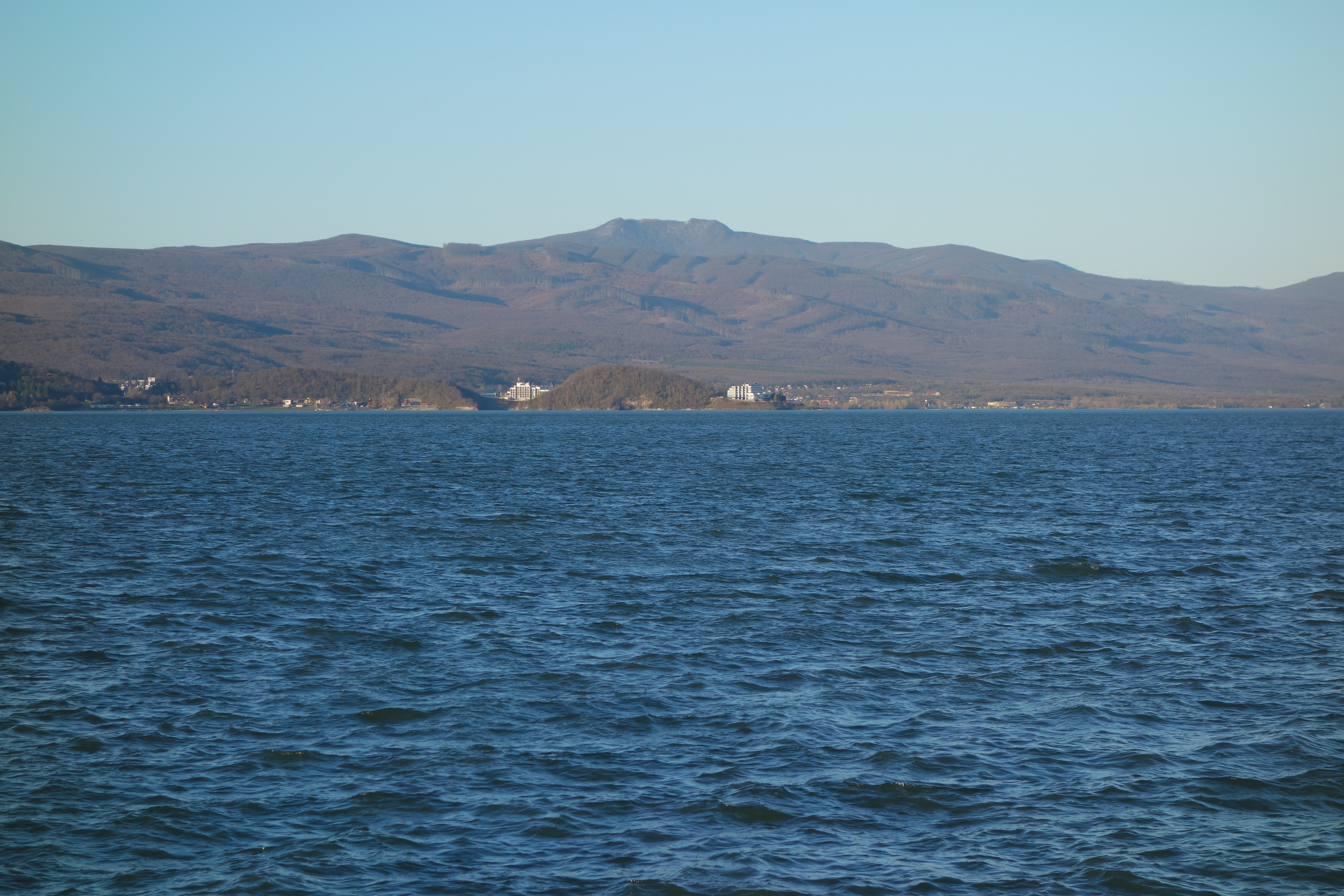 View of Vihorlat, Vihorlatské vrchy and Zemplínska šírava